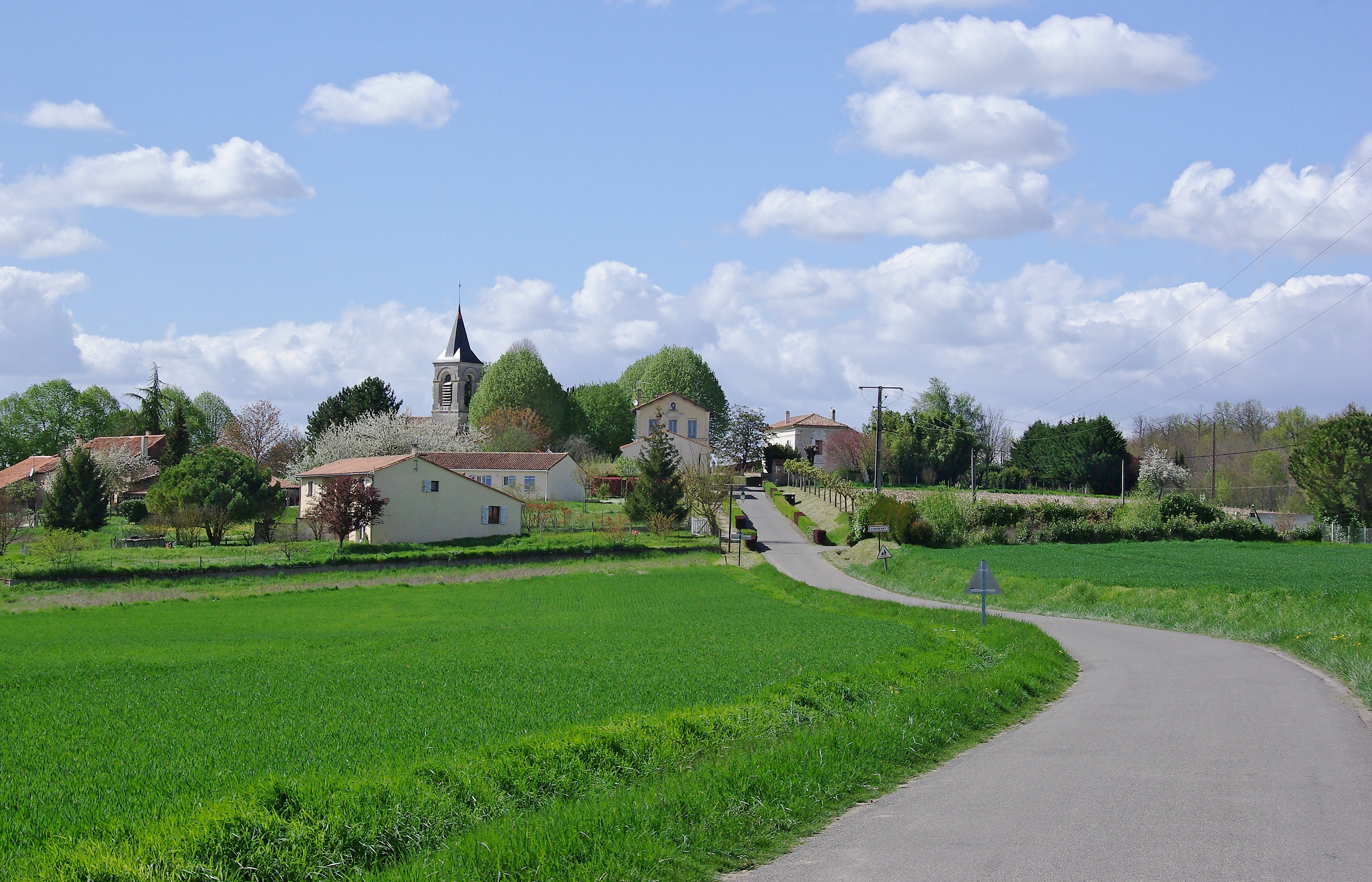 S.-E. view of the village, from road D 439. Chavenat, Charente, France.